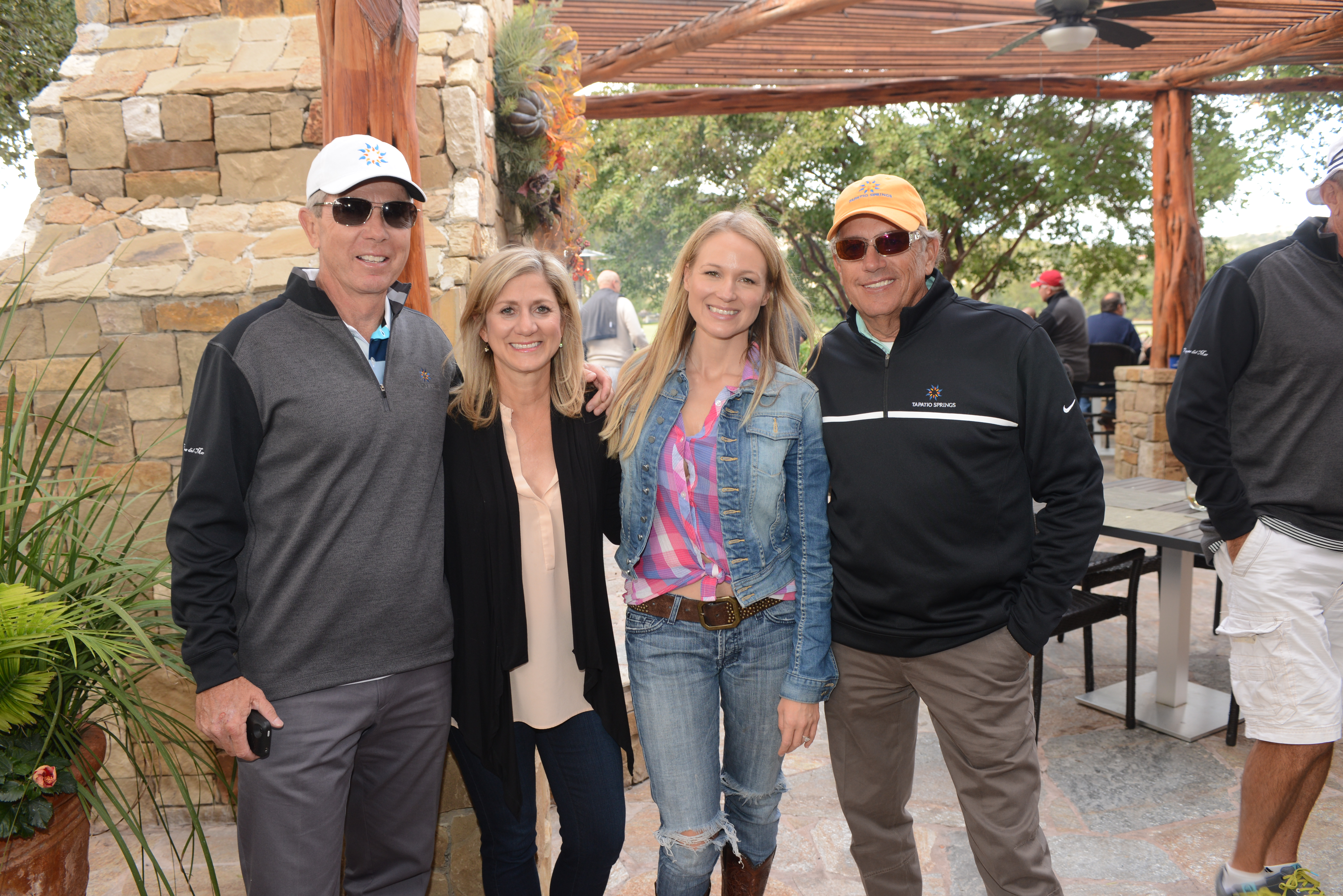 Tom P. Cusick JR, Silvia Cusick, Jewell (singer), and George Strait at the Charity Golf Tournament & Concert Vaqueros Del Mar, November of 2012.